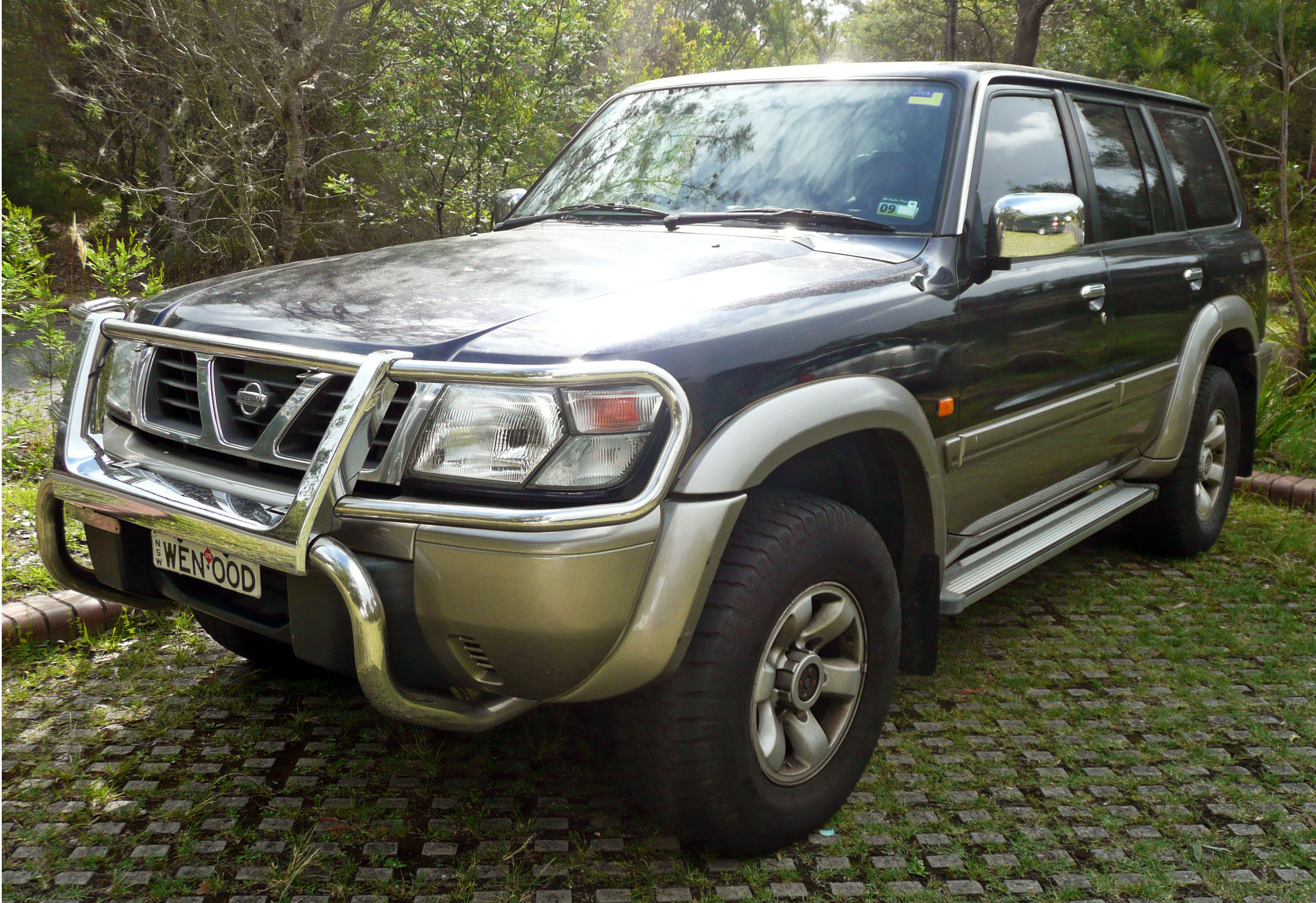 1997–2000 Nissan Patrol (GU) Ti 4.5i. Photographed in Audley, New South Wales, Australia.